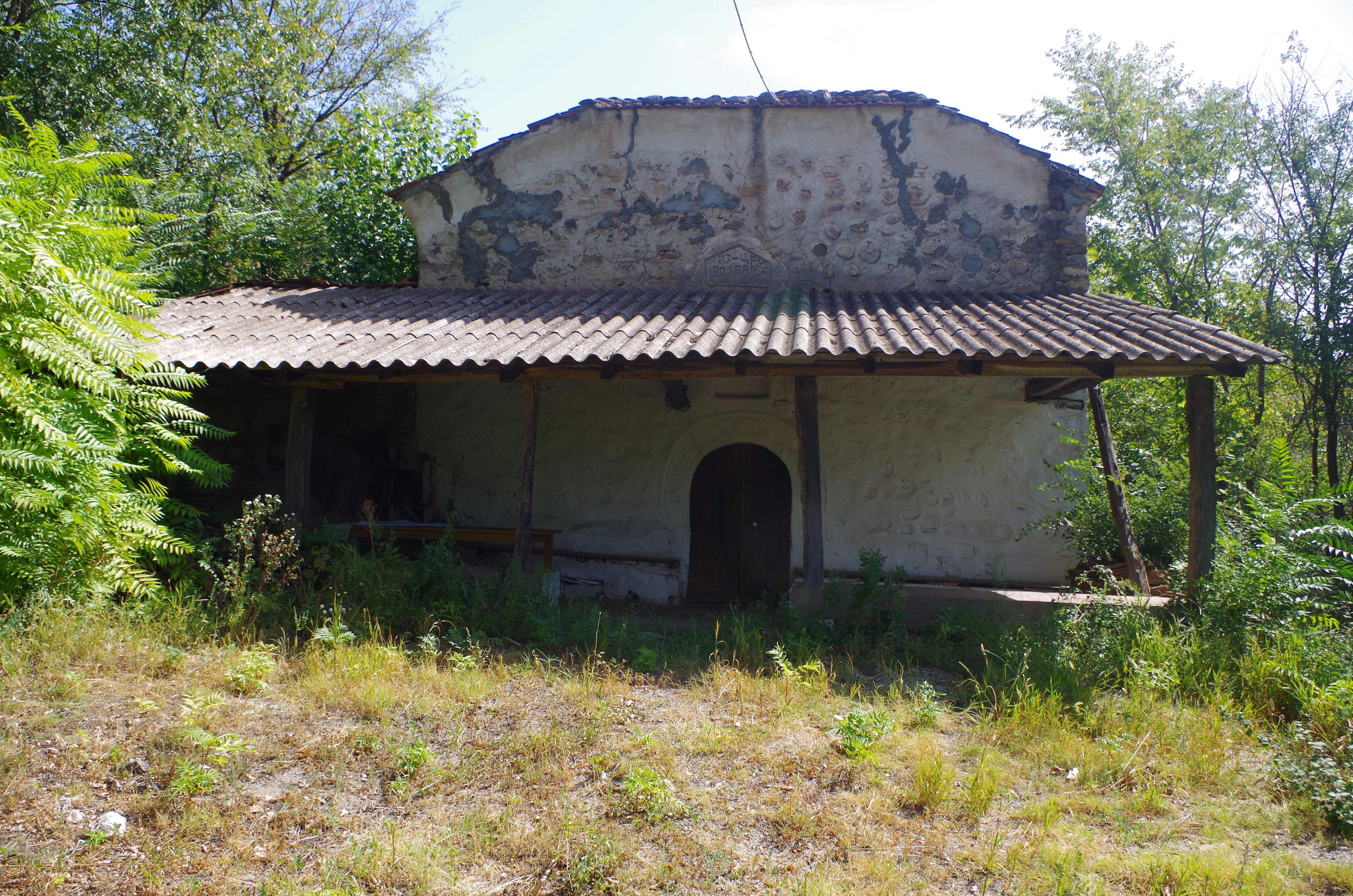 St. Stephen's Church in the village of Šivec